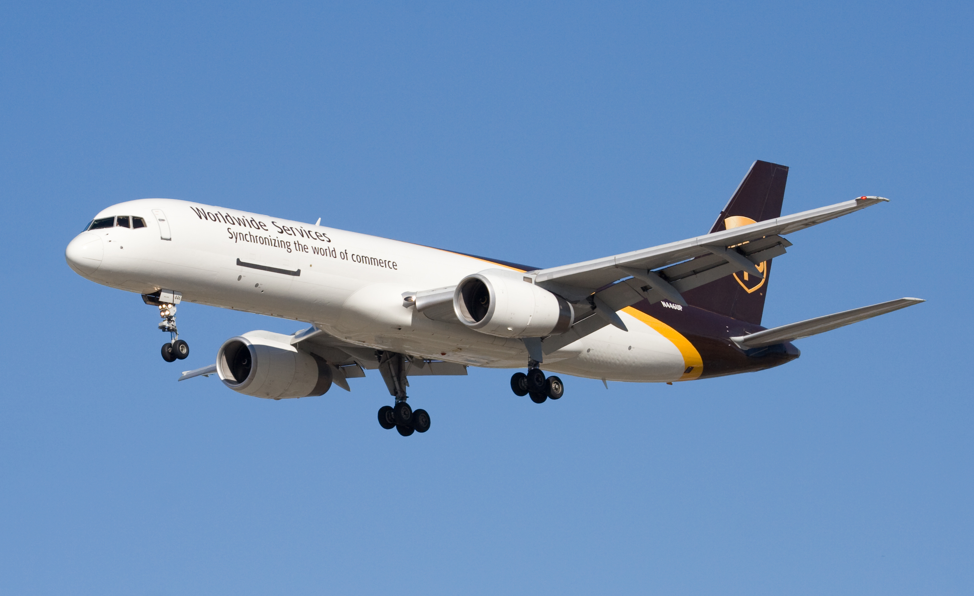 United Parcel Service 757-200PF